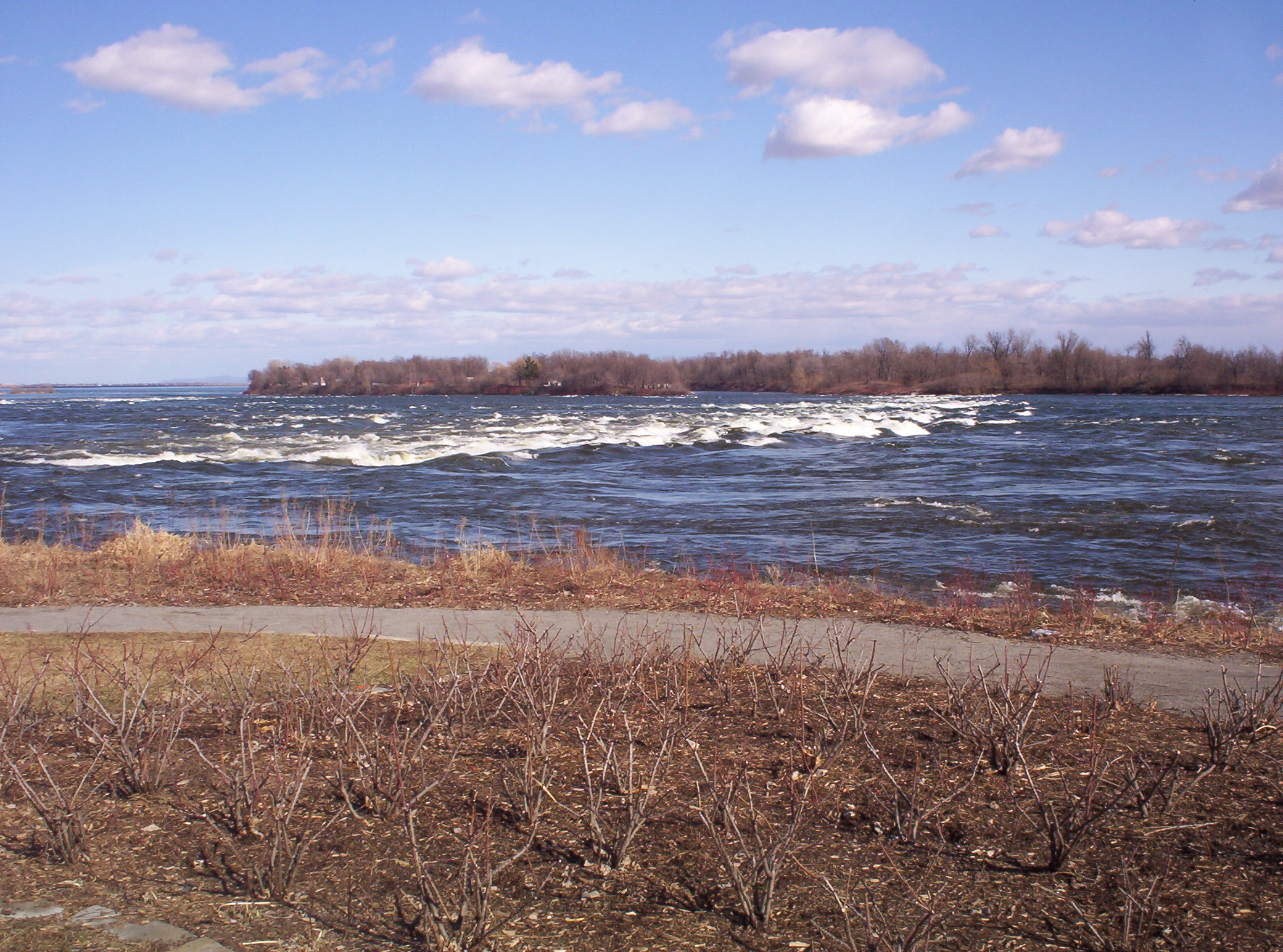 Summary: The Lachine rapids in Montréal, Québec Author: Colocho Date: March 26th, 2006